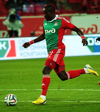 Oumar Niasse